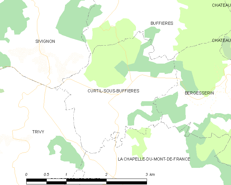 Map of French municipality